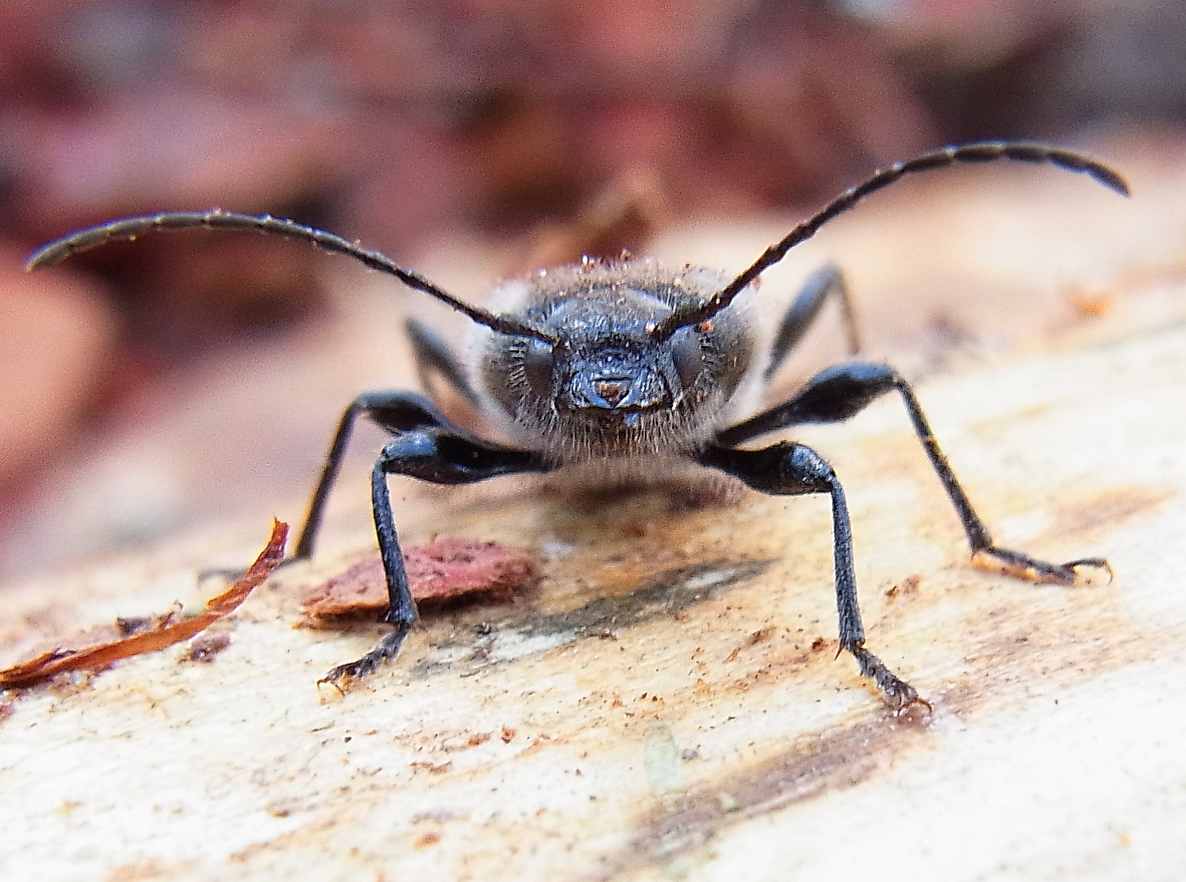 Hylotrupes bajulus from northern Spain, Es33887 Berducedo Asturias at 2013-08-05